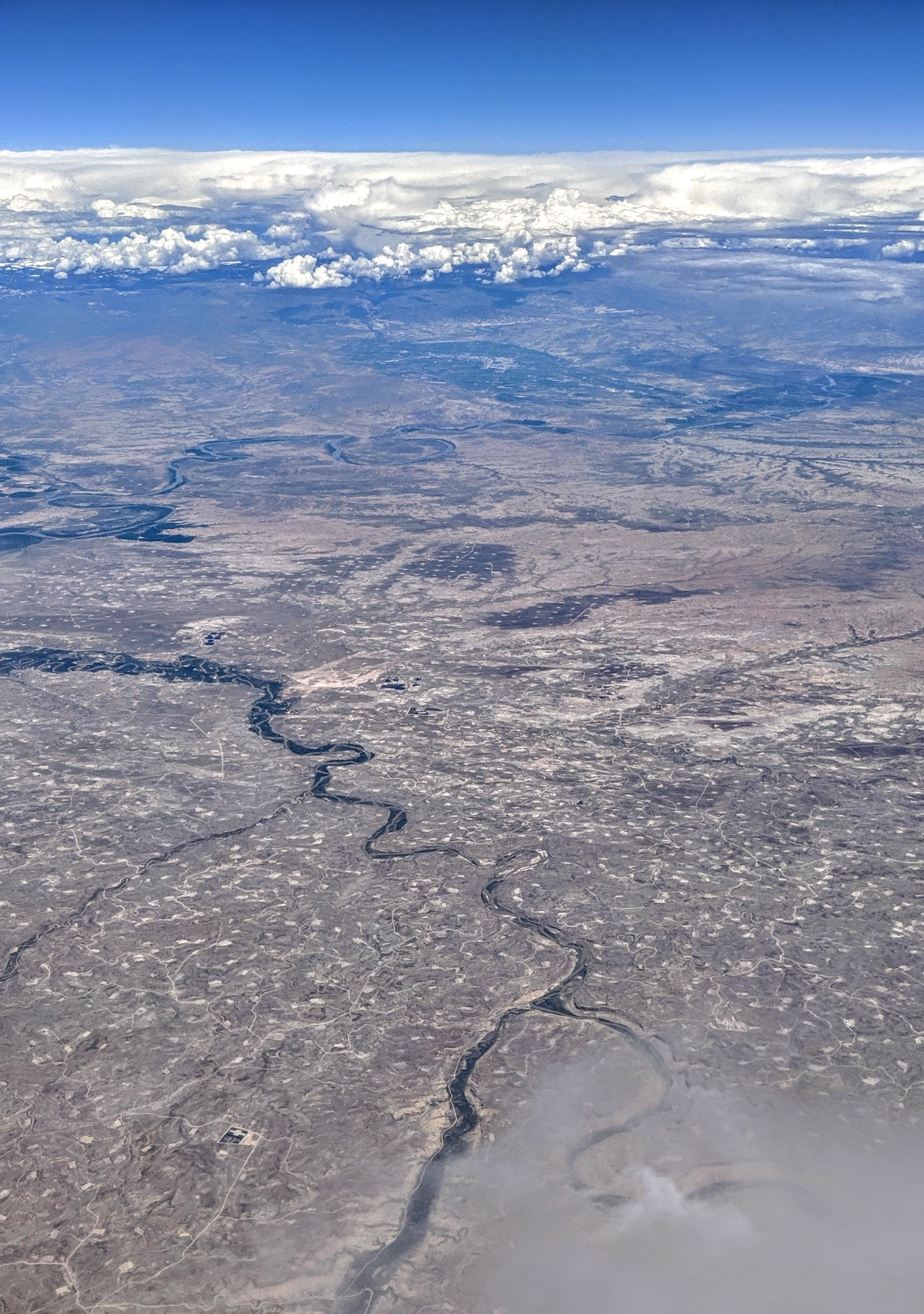 Aerial view from the south of Utah's White River (Green River tributary) and its tributary Bitter Creek, with the Bitter Creek Gas Field (each light spot is a well). The Green River's Horseshoe Bend and Vernal, Utah, are visible in he distance.